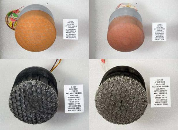 On the left is the heritage (Apollo) Avocoat for the Apollo Command Module. On the right is the Advanced Development Project (ADP) Avcoat for the Orion Command Module.